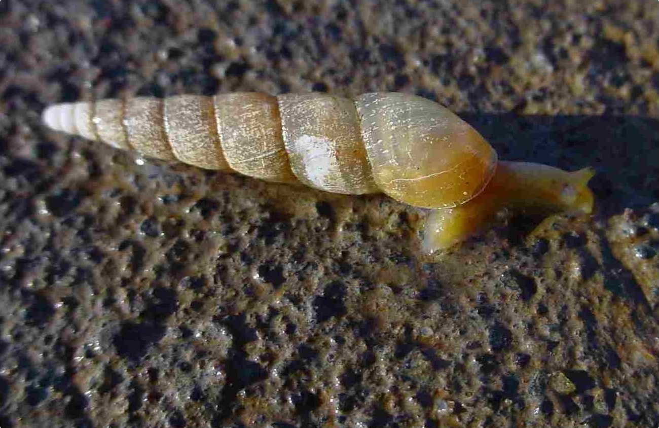 Landsnail (Subulina striatella) from Reunion Island